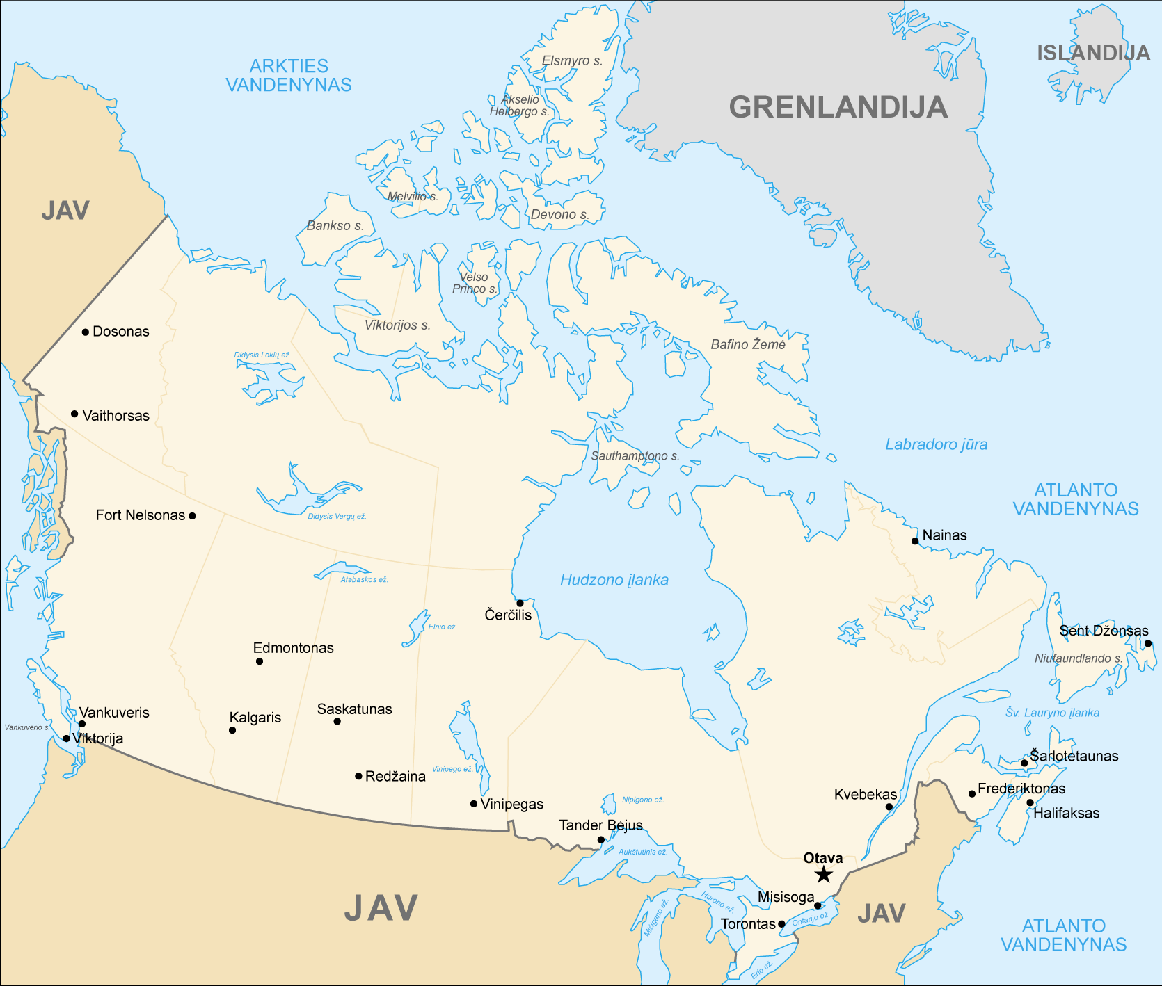 Map of Canada (Lithuanian version) based on Image:Canada (geolocalisation).svg